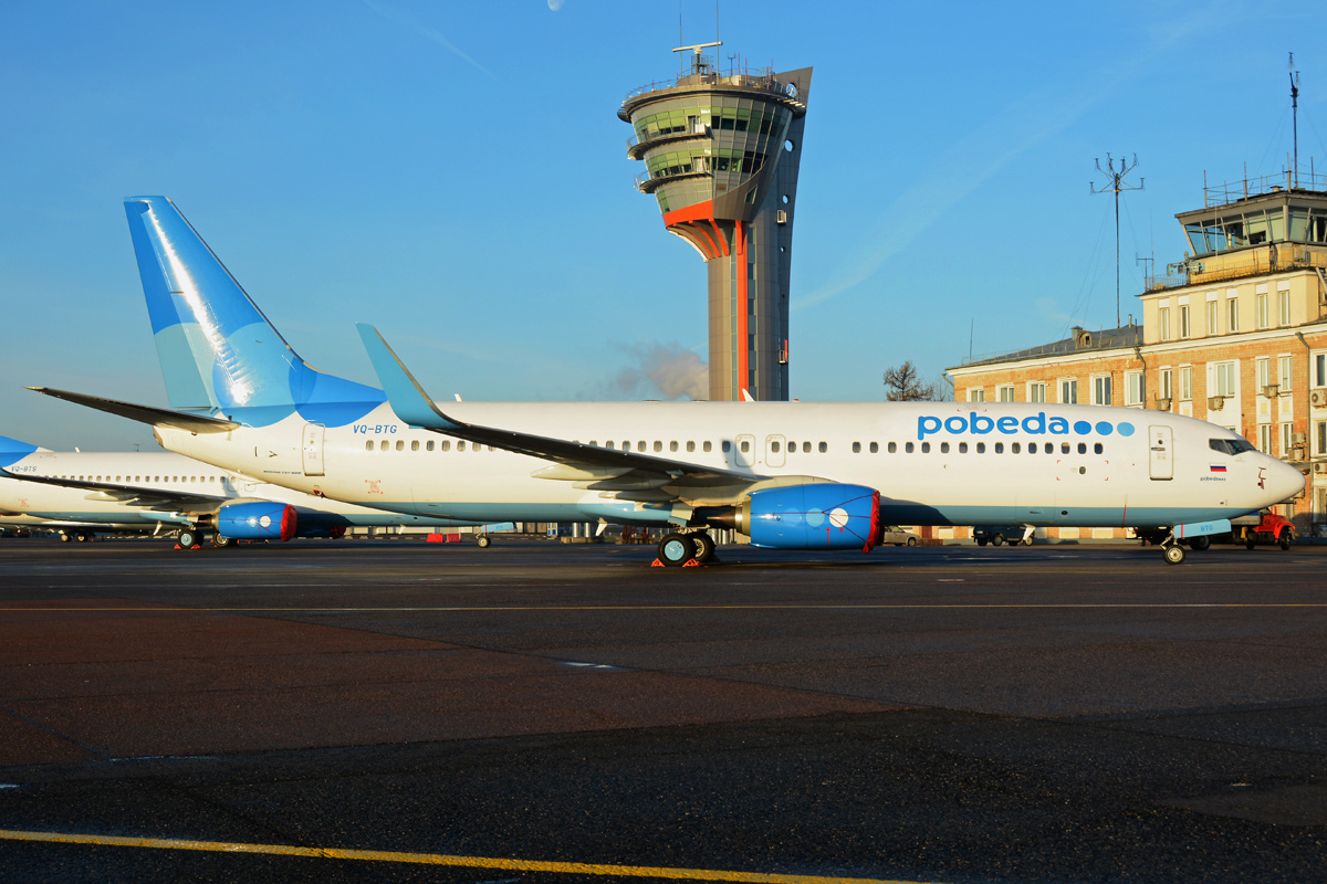 Pobeda Boeing 737-800 at SVO